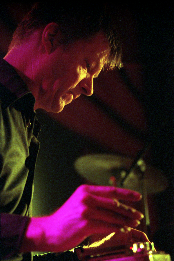 Nels Cline @ All tomorrow's parties festival 2004 (London)